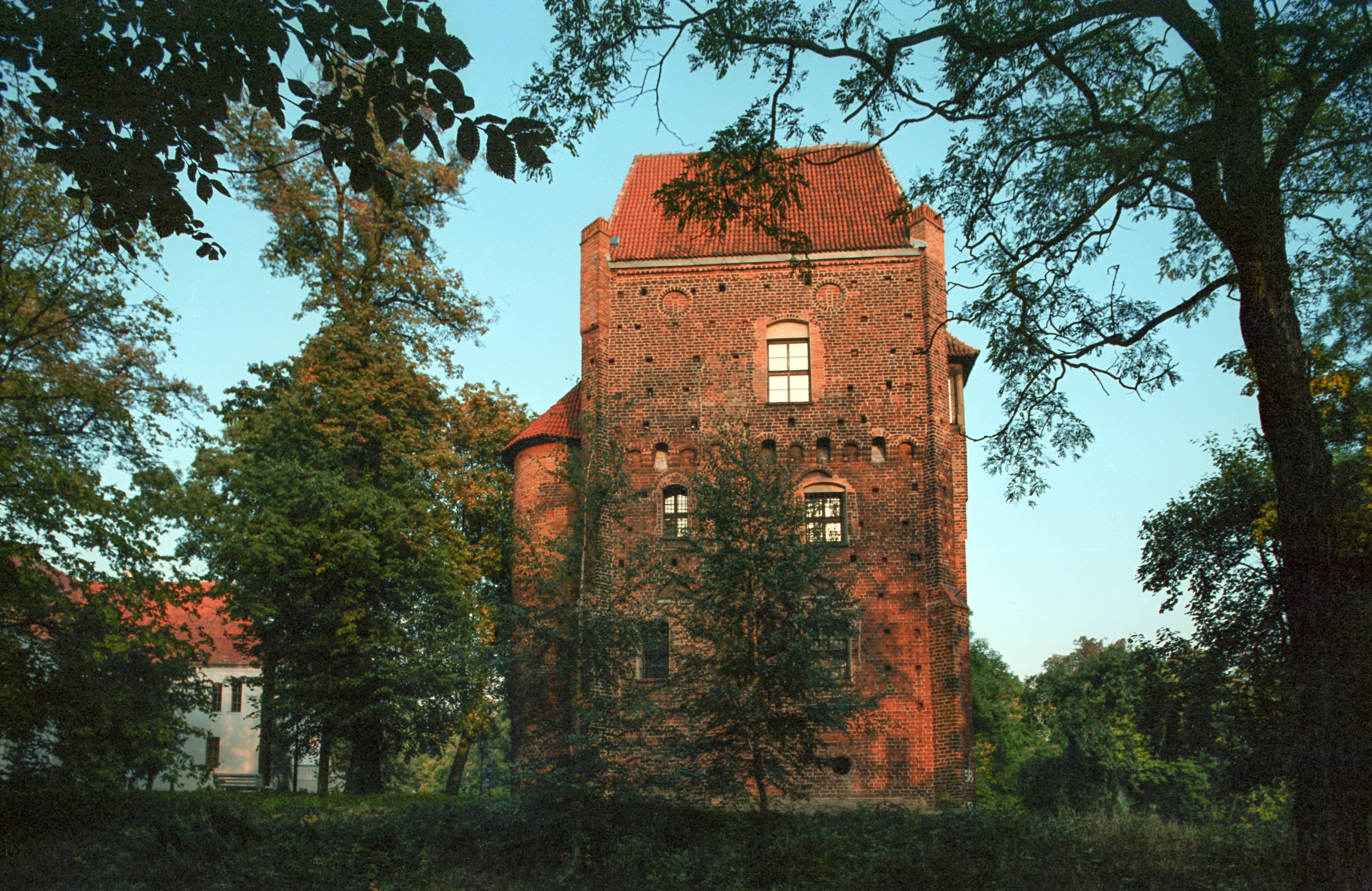 Poland, Szamotuly Castle